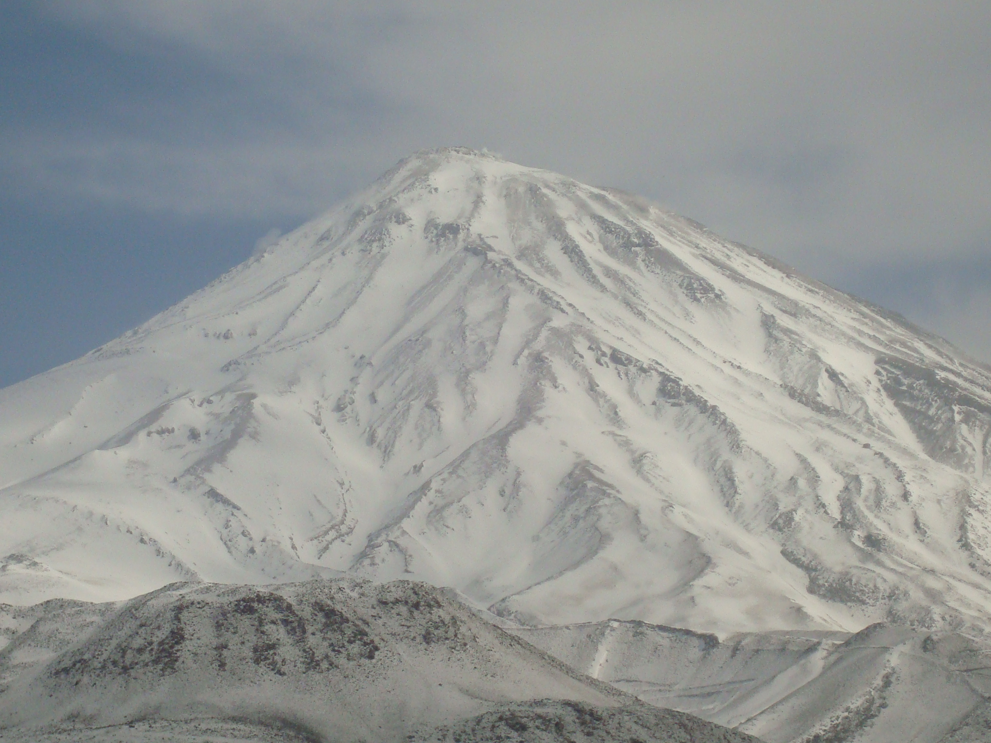 Damavand in Alborz Mountains